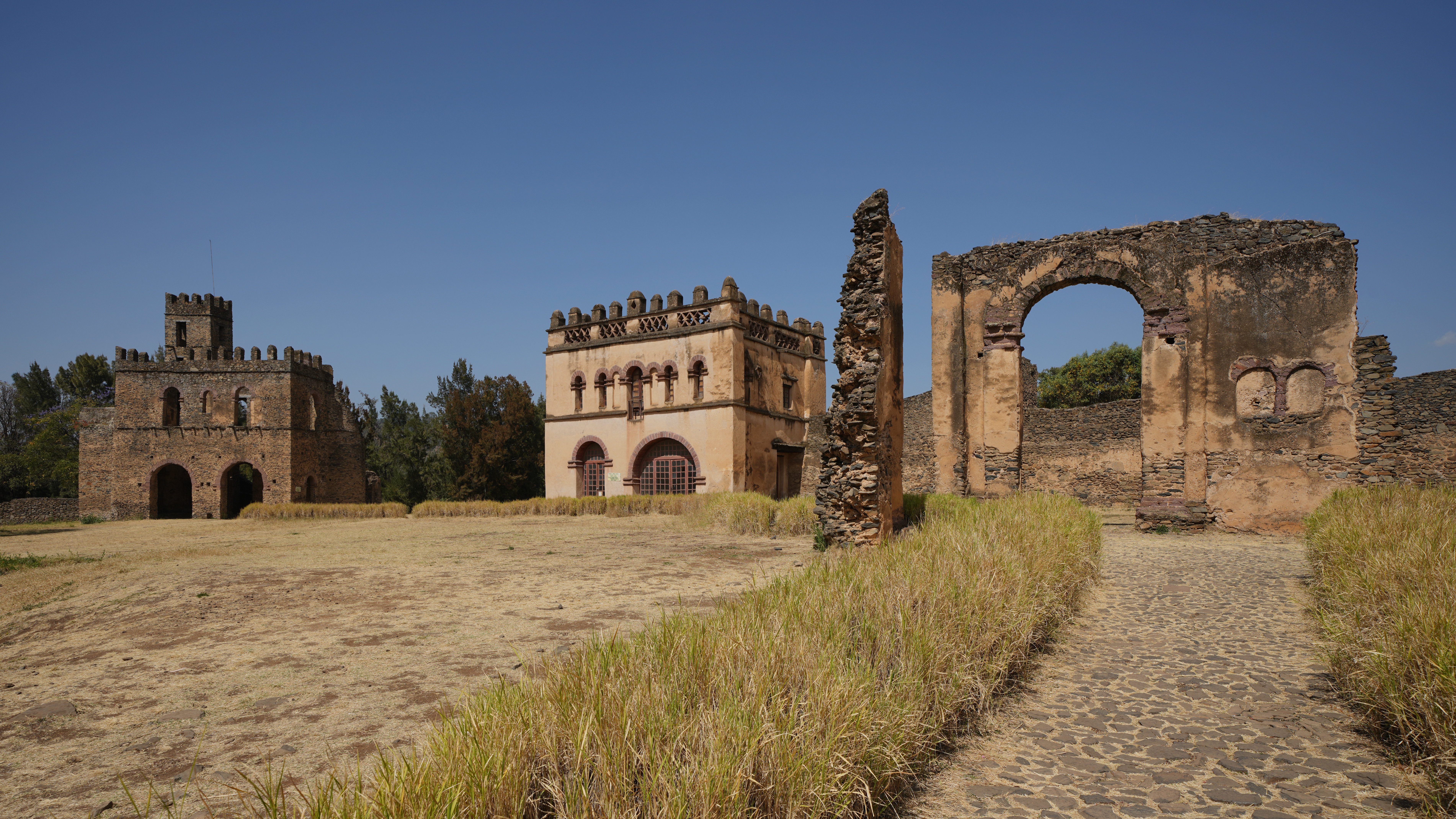 Fasil Ghebbi fortress in Gondar, Ethiopia